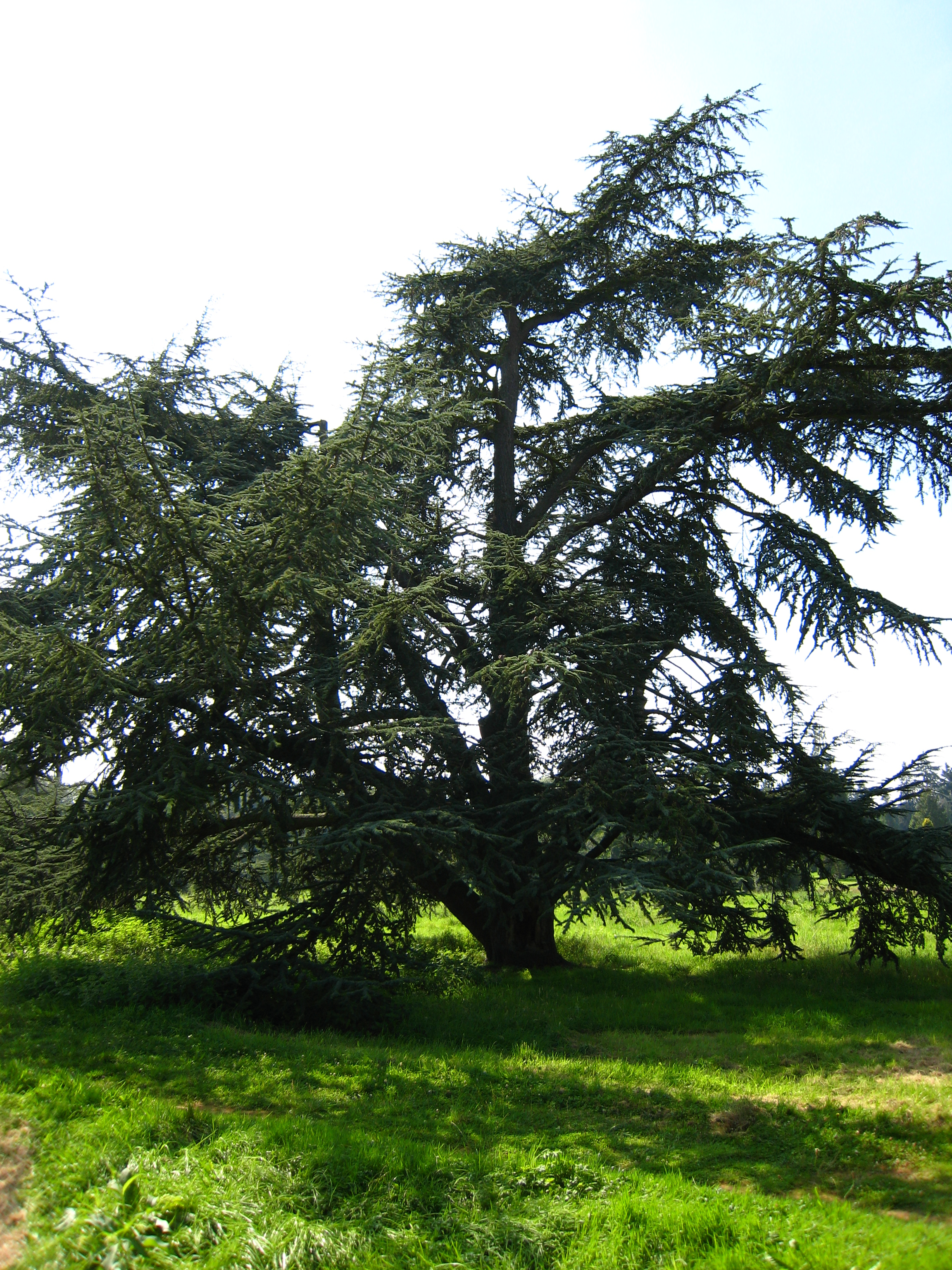 Cedrus atlantica in the Arboretum de Chèvreloup in Rocquencourt.